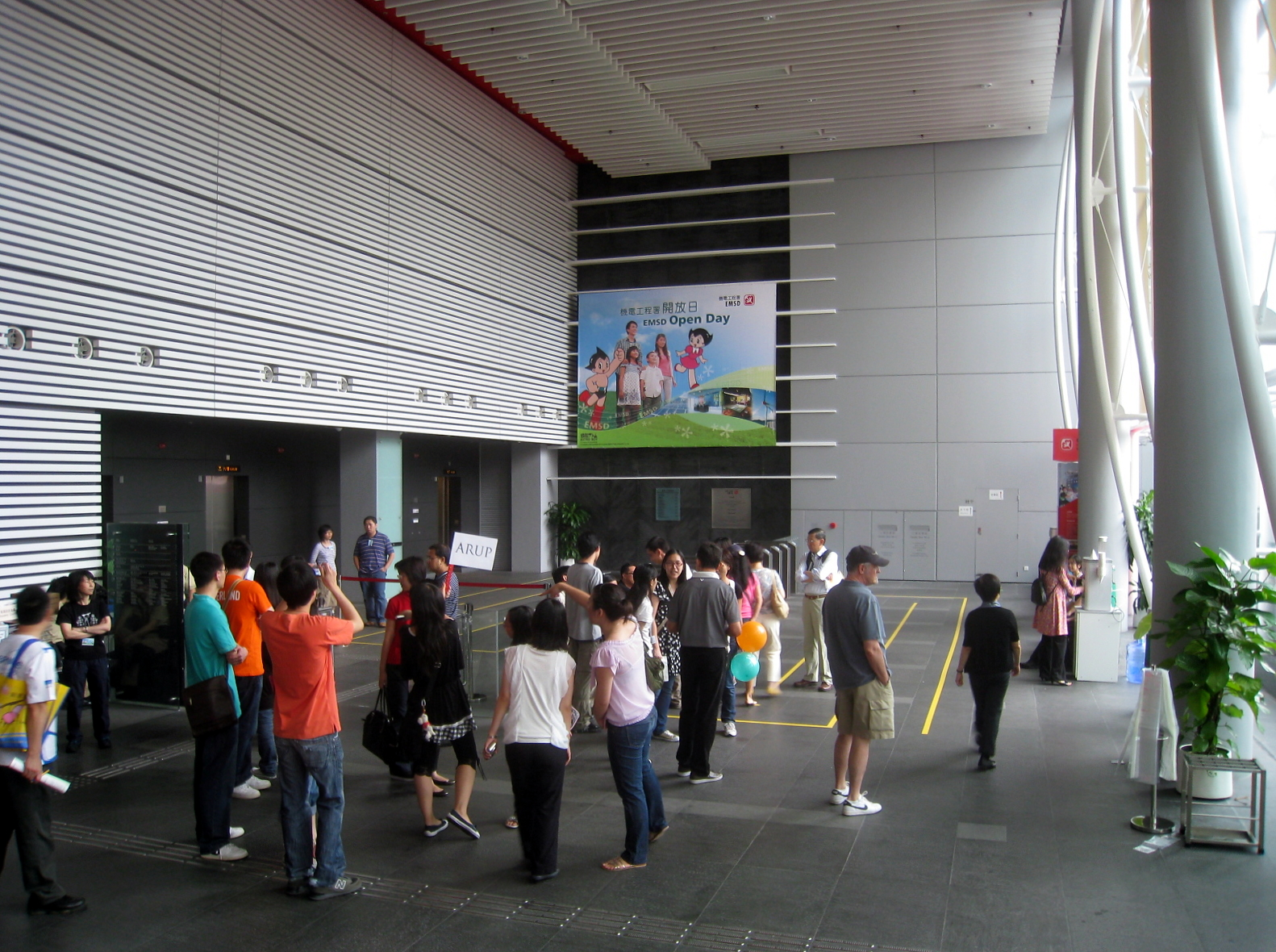 Electrical and Mechanical Services Department Headquarters Lobby 機電工程署總部大樓